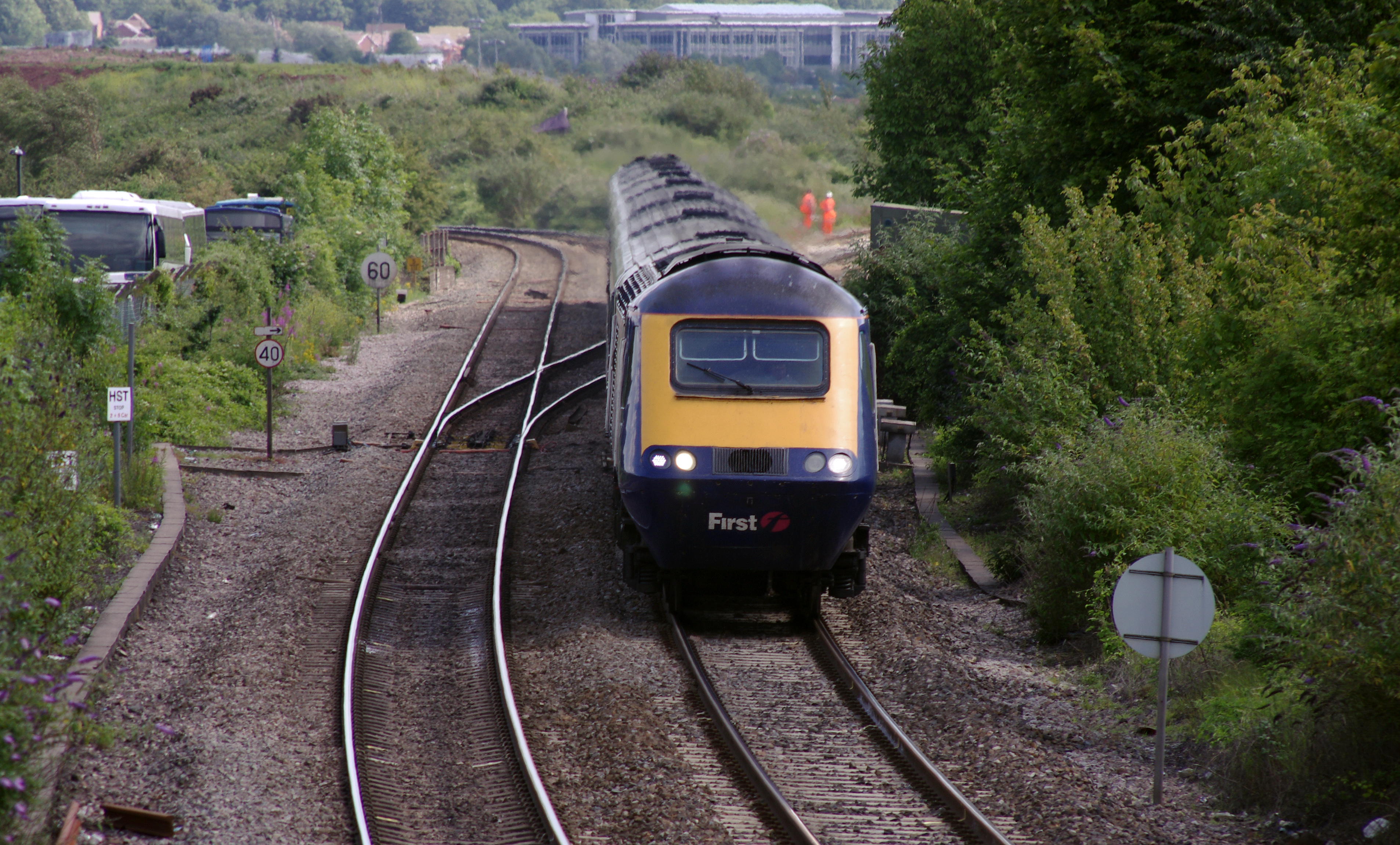 First Great Western power car 43127 leads a westbound HST service through Patchway.